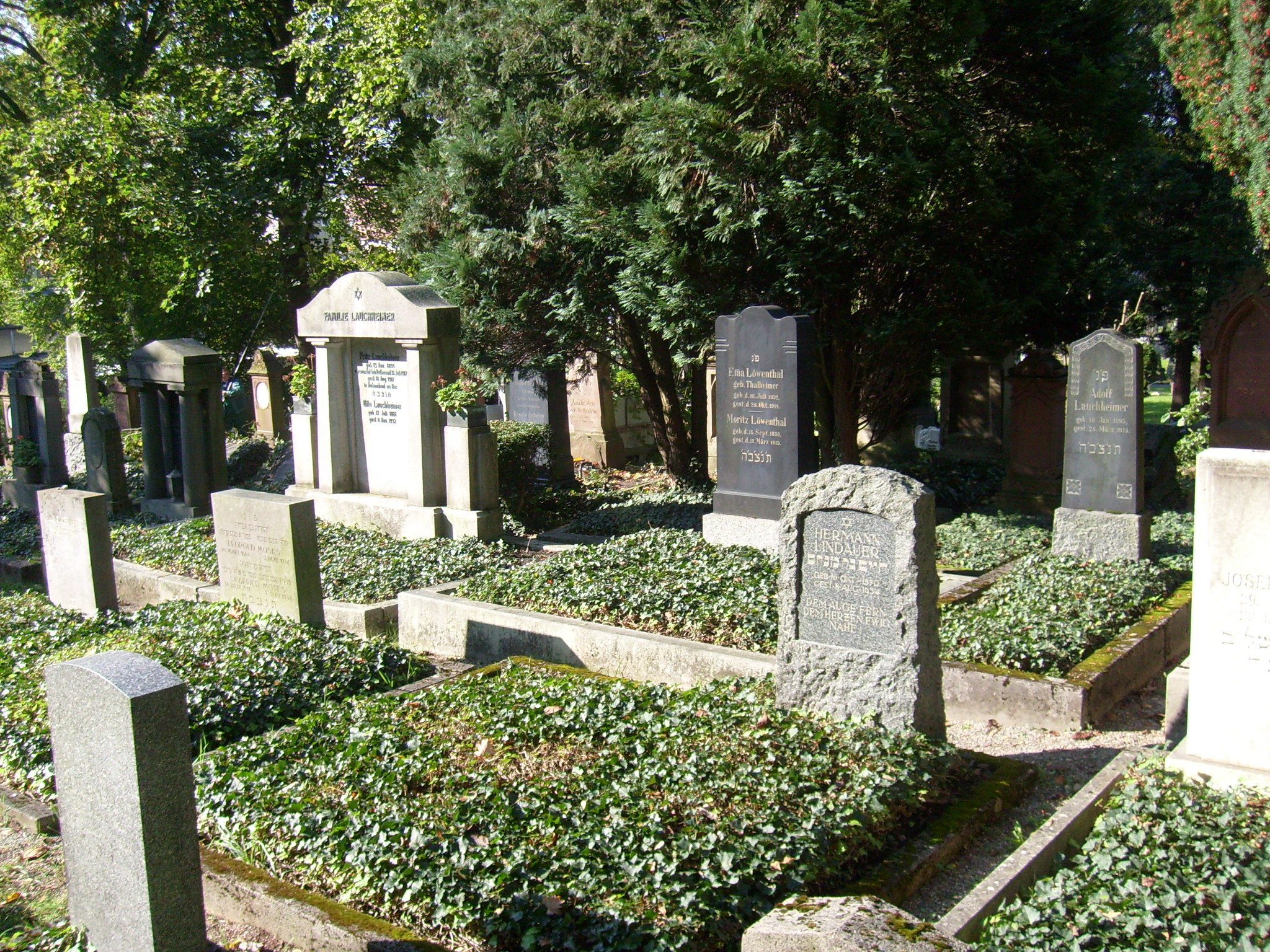 Jewish cemetery in Esslingen/Neckar ESL בית עלמין